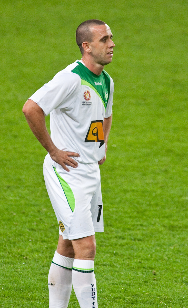 James Robinson playing for the North Queensland Fury in the A-League.